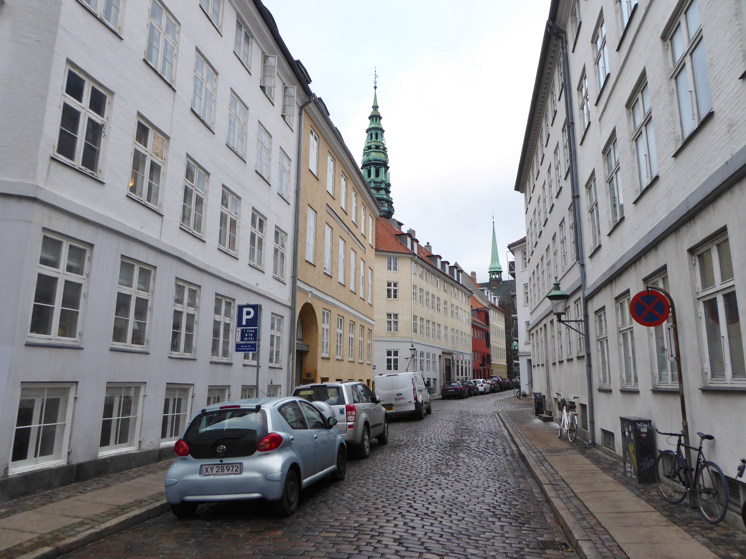 The street Nikolajgade in Indre By in Copenhagen. The tower above the street belongs to Kunsthallen Nikolaj, a former church.